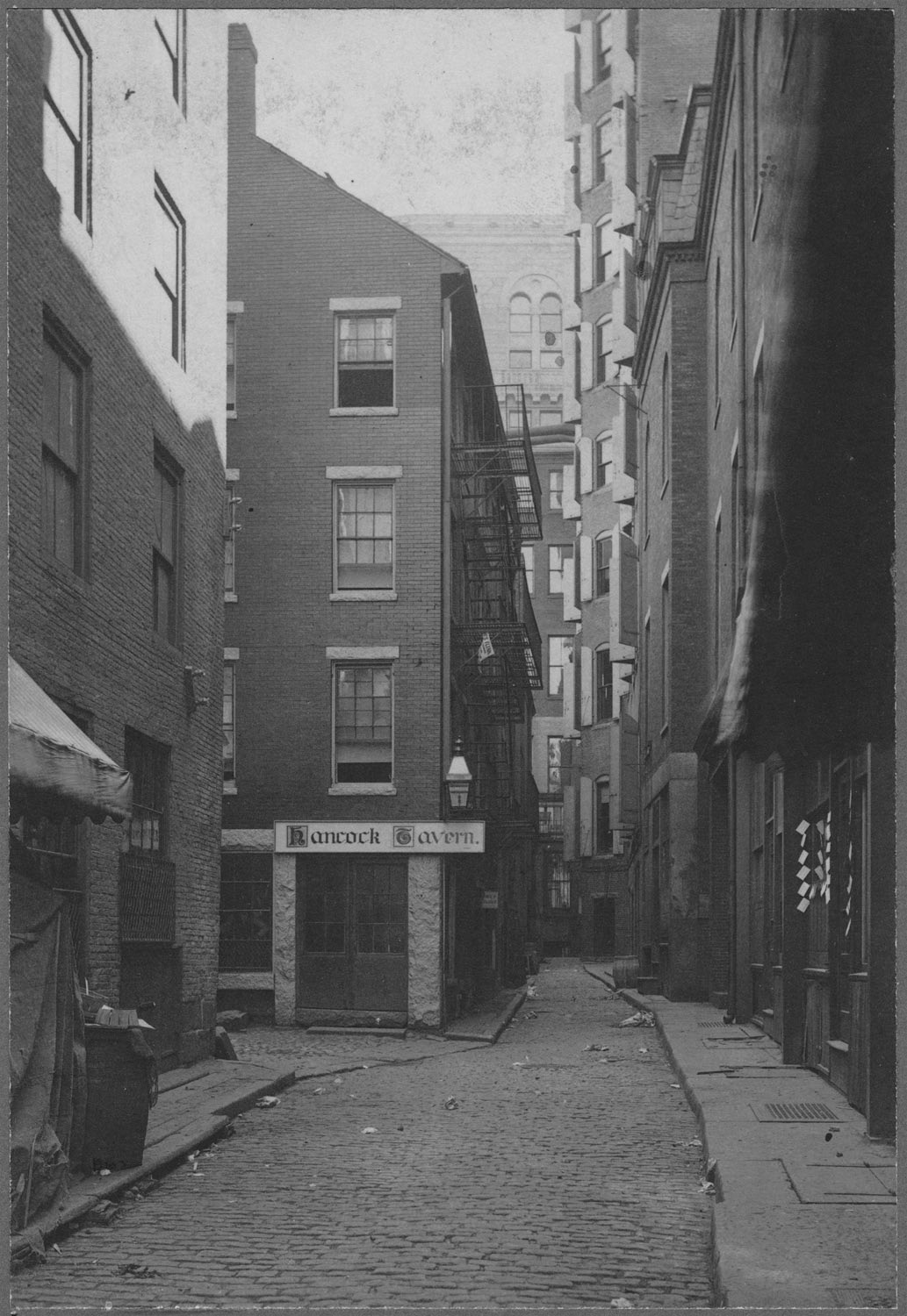 Accession No.: 07_10_000080 Cab. No.: Cab 23.58.1 Title: Hancock Tavern, Corn Court Date: 1898 (approximate) Genre: Photographs Description: The Hancock Tavern and Court Street were razed in 1903. BPL Department: Print Department |Source= Hancock Tavern, Corn Court |Date=2008-05-21 11:14 |Author=BPL